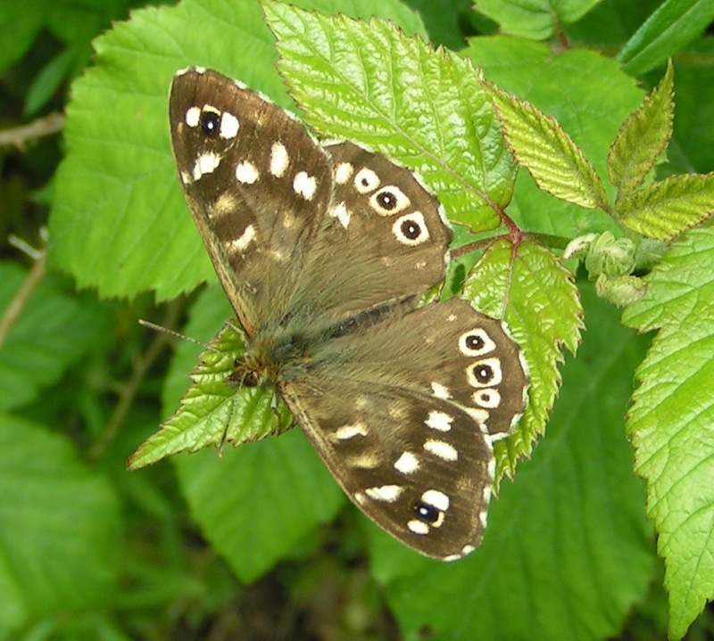 Female Speckled Wood butterfly. Photo by sannse, Great Holland Pits, Essex, 6 June 2004.